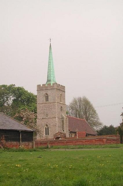 St John the Baptist, Widford, Herts